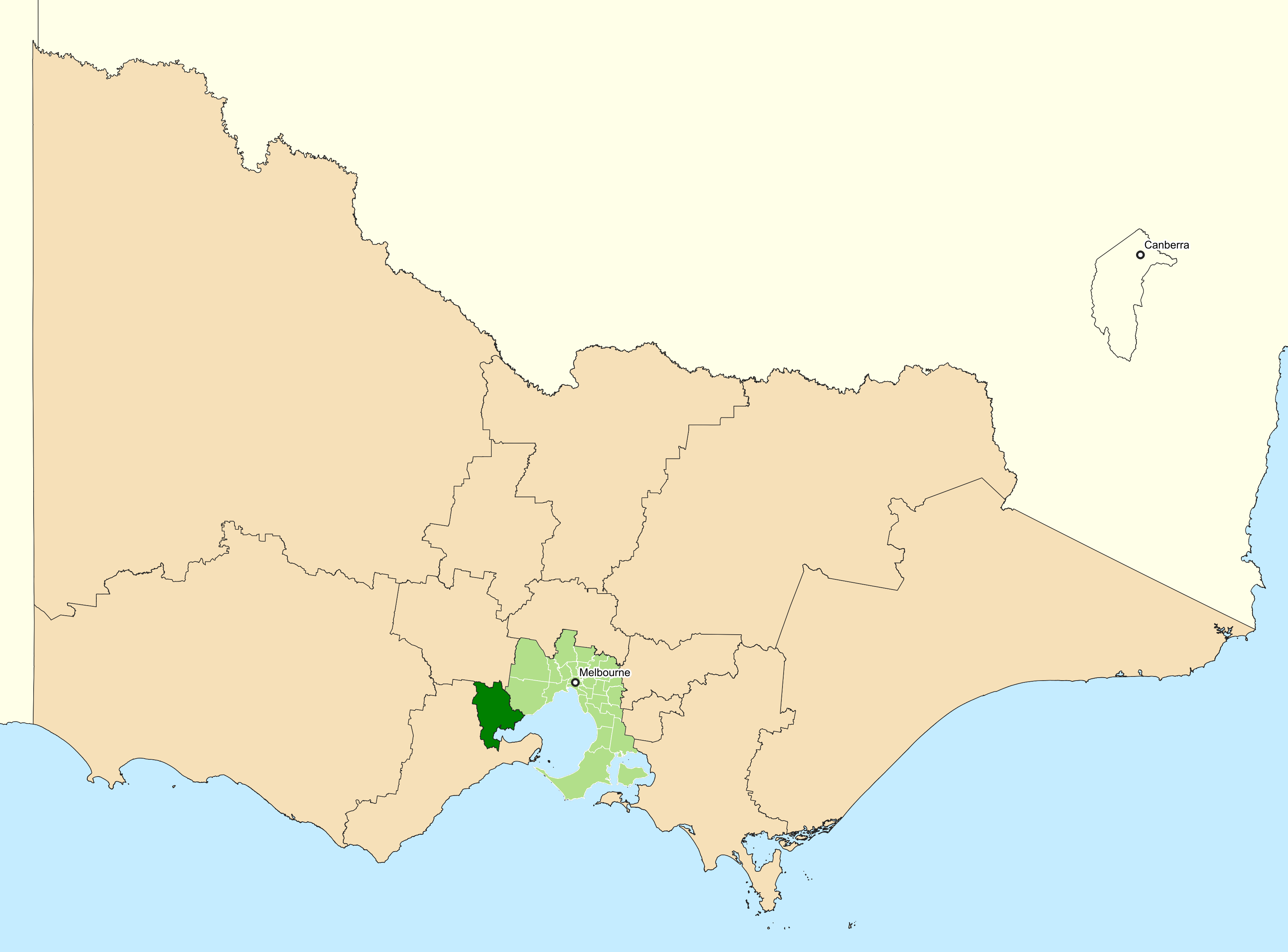 Location of the Australian federal electoral division of Corio (dark green) in Victoria as of the 2019 Australian federal election. Incorporates or developed using Administrative Boundaries ©PSMA Australia Limited licensed by the Commonwealth of Australia under Creative Commons Attribution 4.0 International licence (CC BY 4.0).